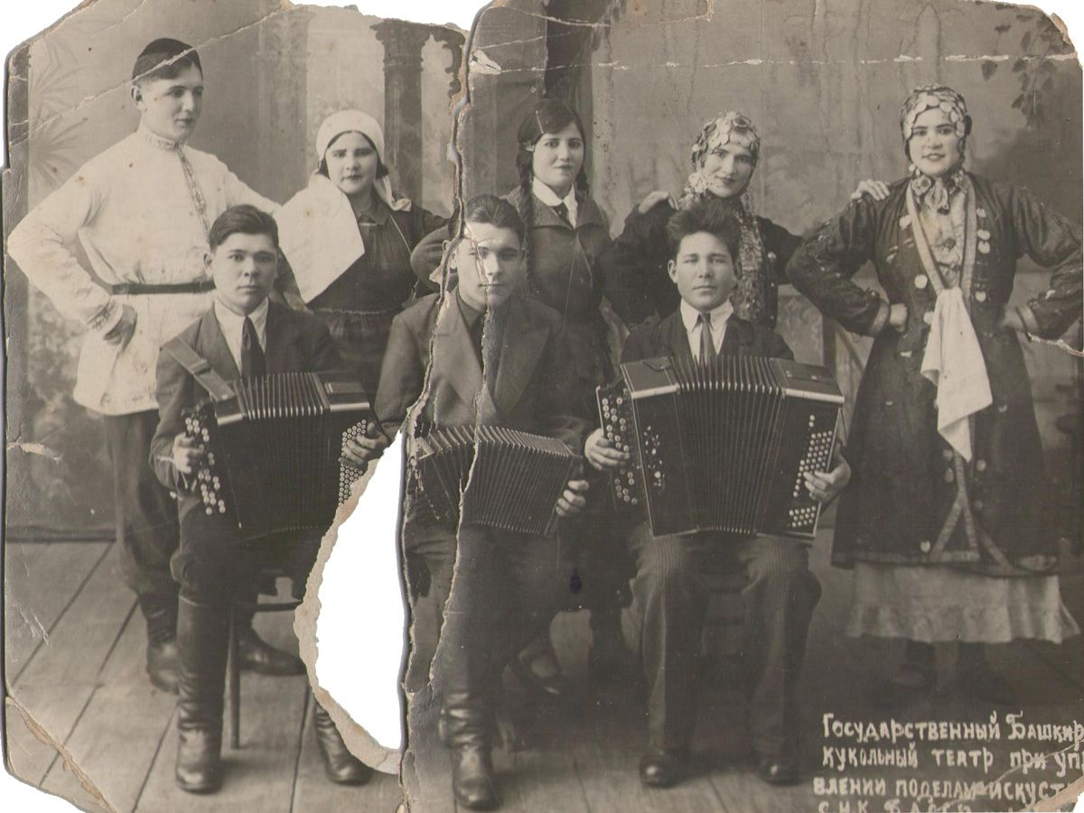 Artists Theatre, Ufa, Russia. 1934